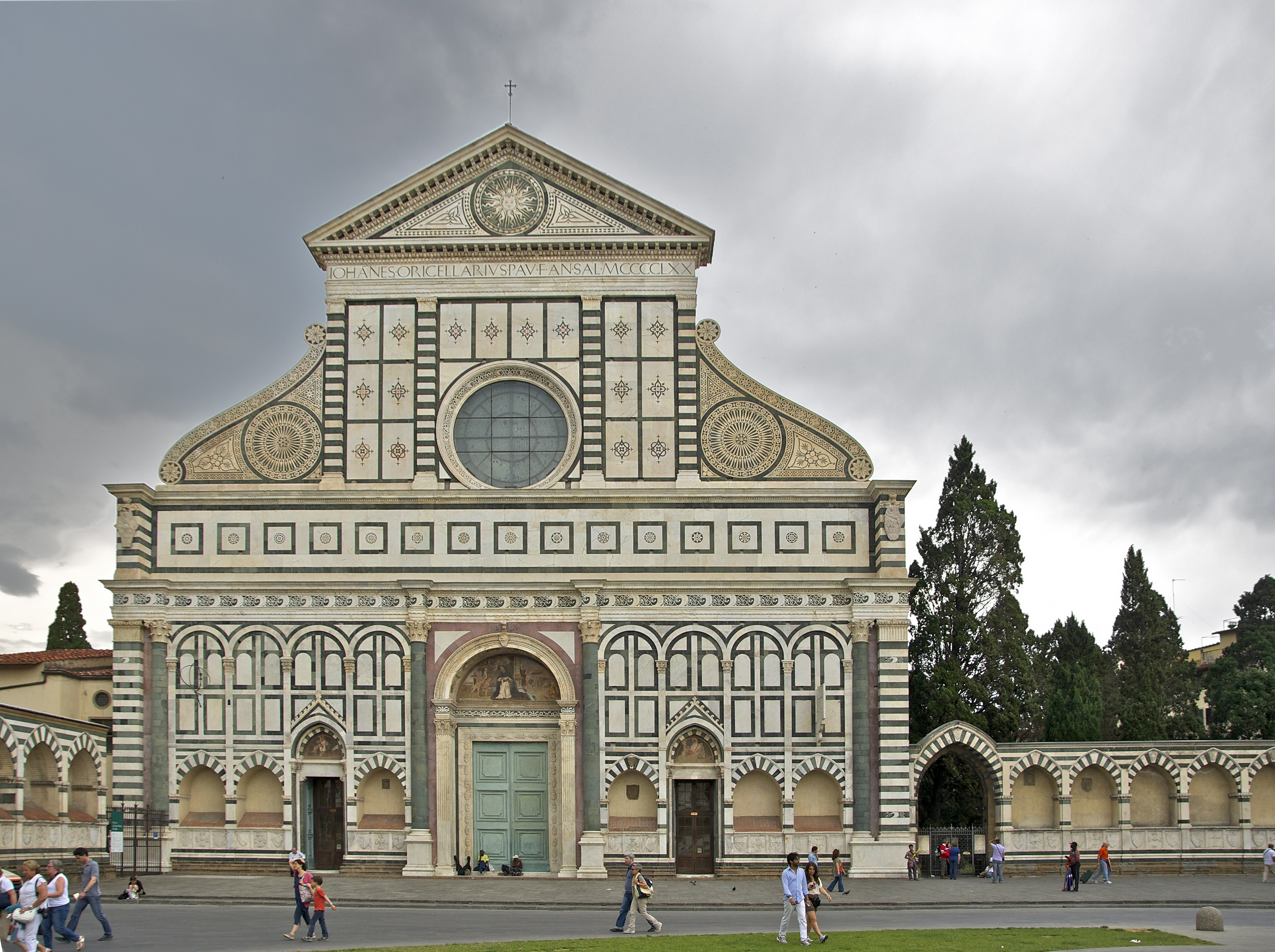 Facade of the church Santa Maria Novella in FLorence, Italy.